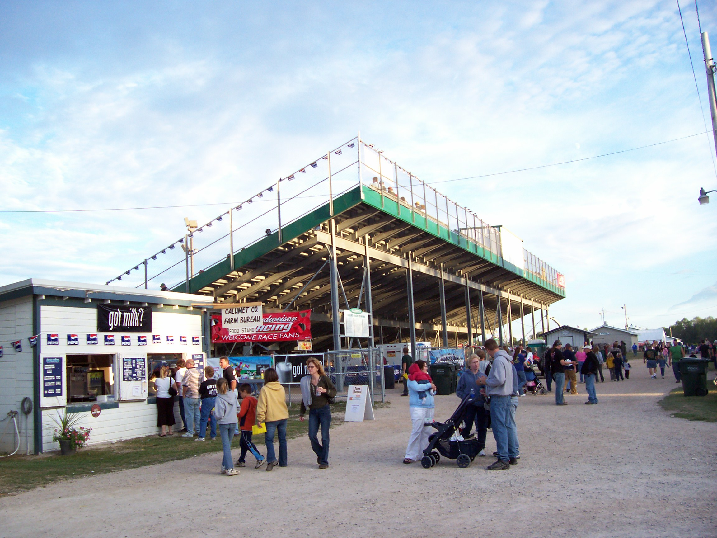 Grandstands during the Calumet County Fair in Chilton, USA, taken September 1, 2006 by User:Royalbroil